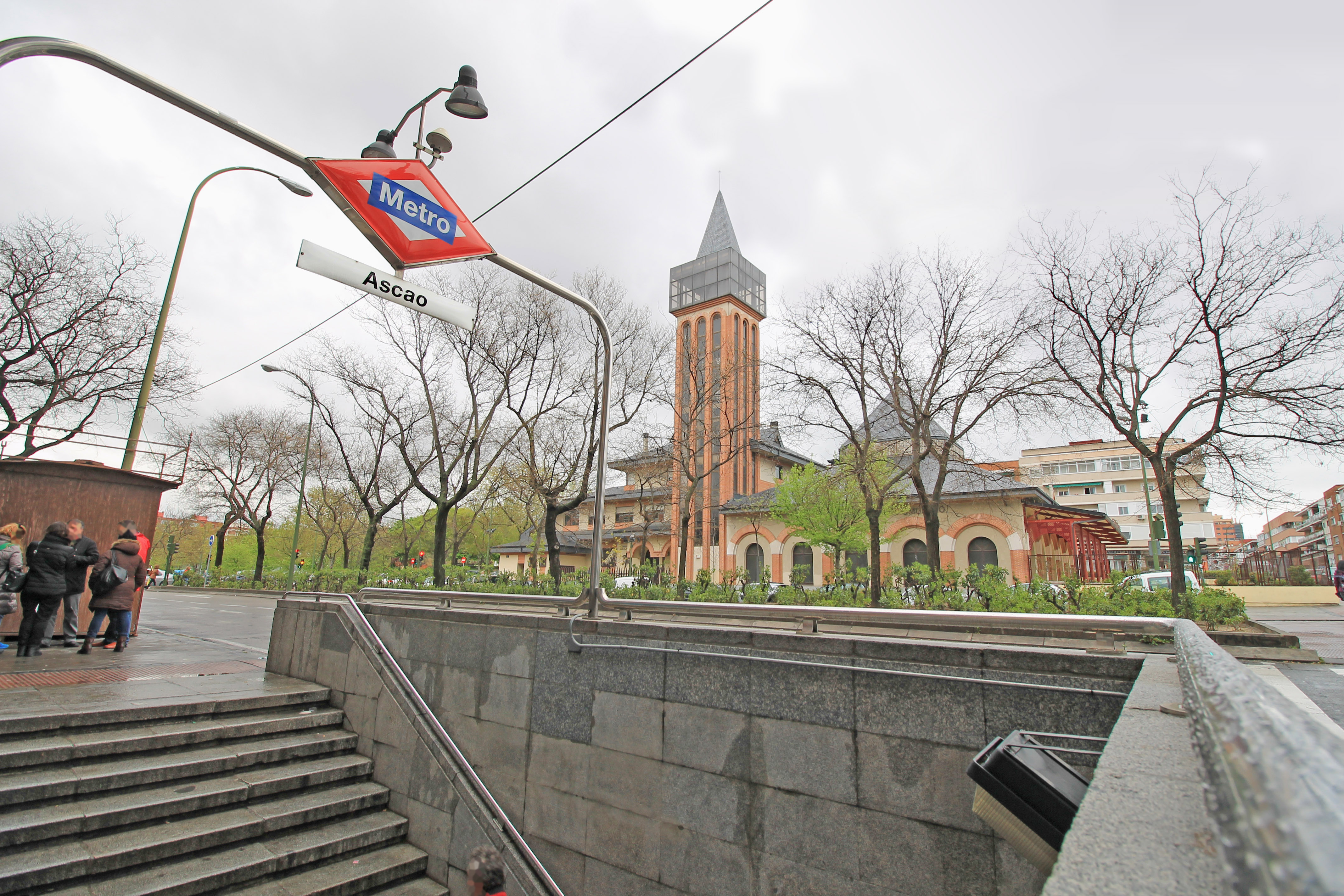 Entrance of Ascao metro station in Madrid (Spain). Background: Church of San Romualdo.